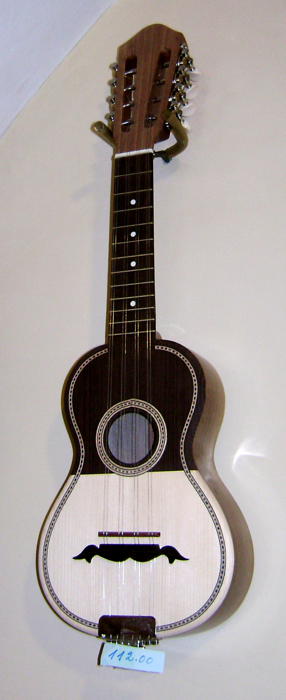 8-string Minho cavaquinho.